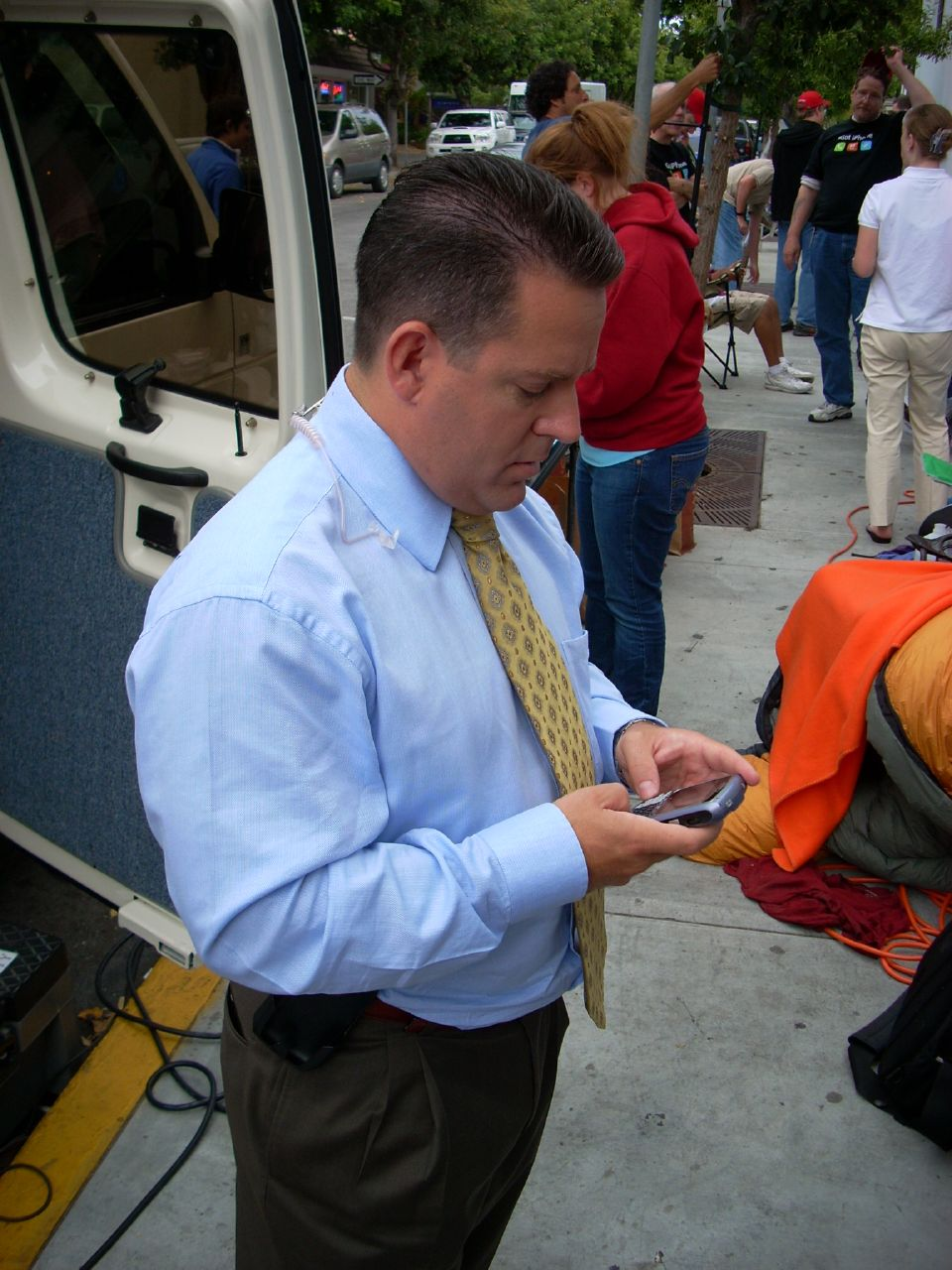 CNBC reporter Jim Goldman writes the names, websites and blogs of the folks in line at the Palo Alto Apple store.